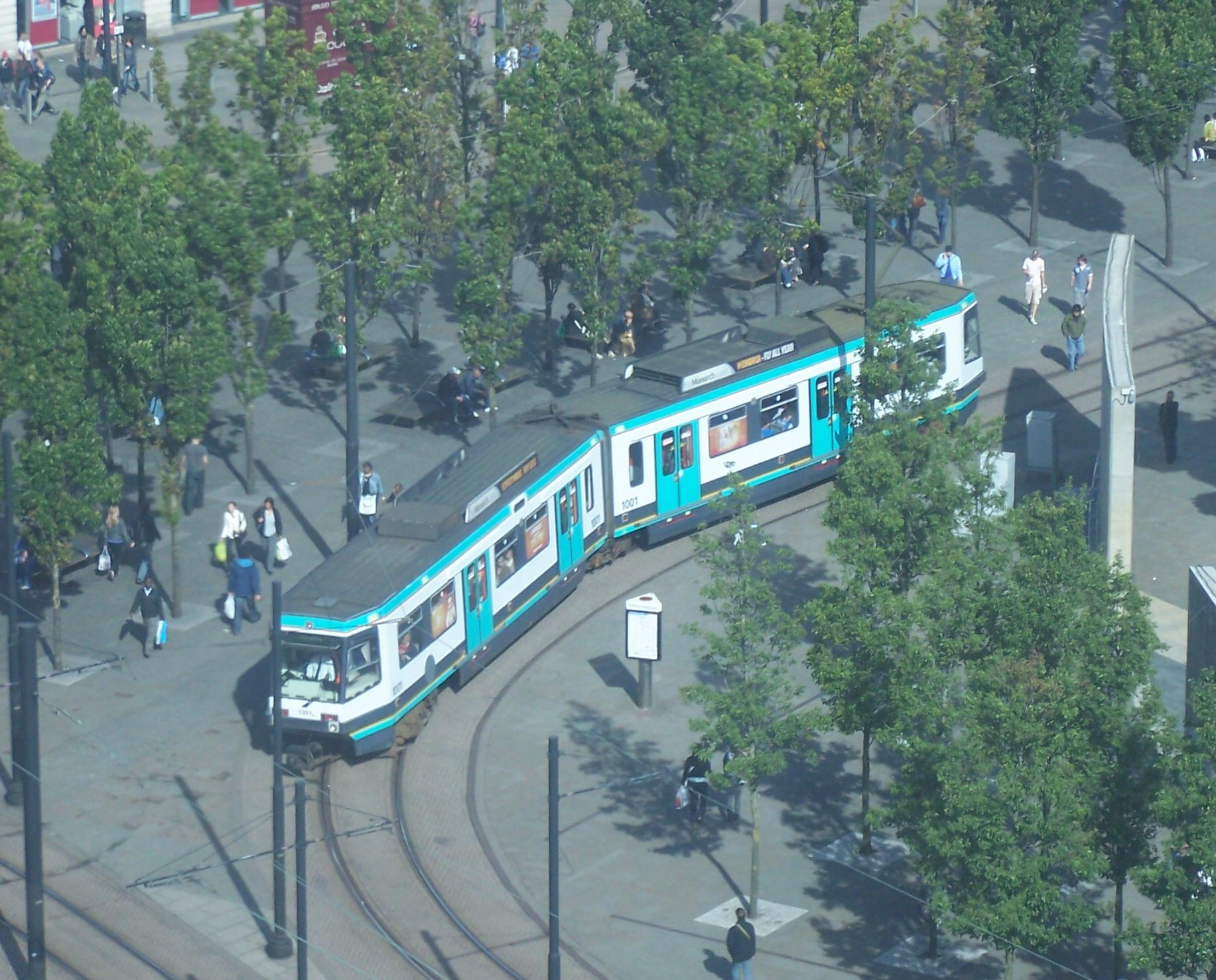 An image of a Metrolink Tram I took whilst it was passing through Piccadilly Gardens.